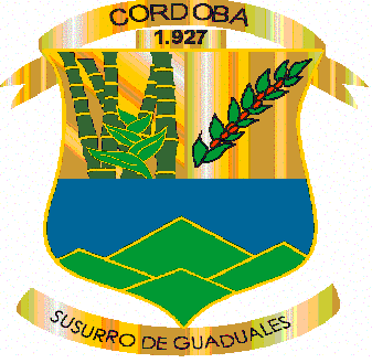 Escudo de Cordoba, Quindio